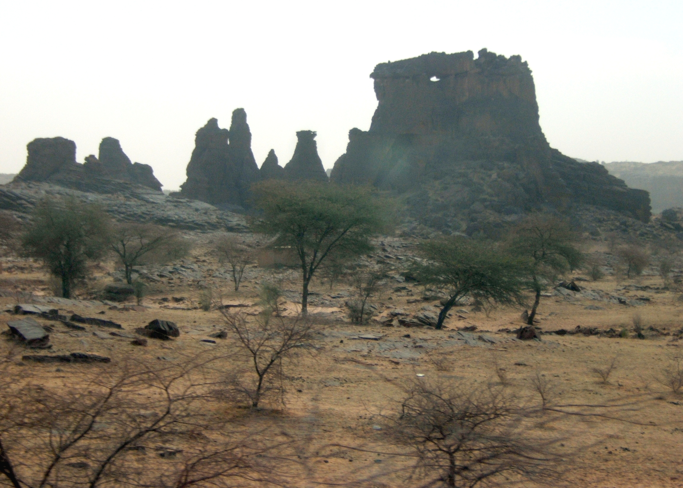 Landscape at the southern border of the Sahara near Ayoûn el-Atroûs, Mauritania